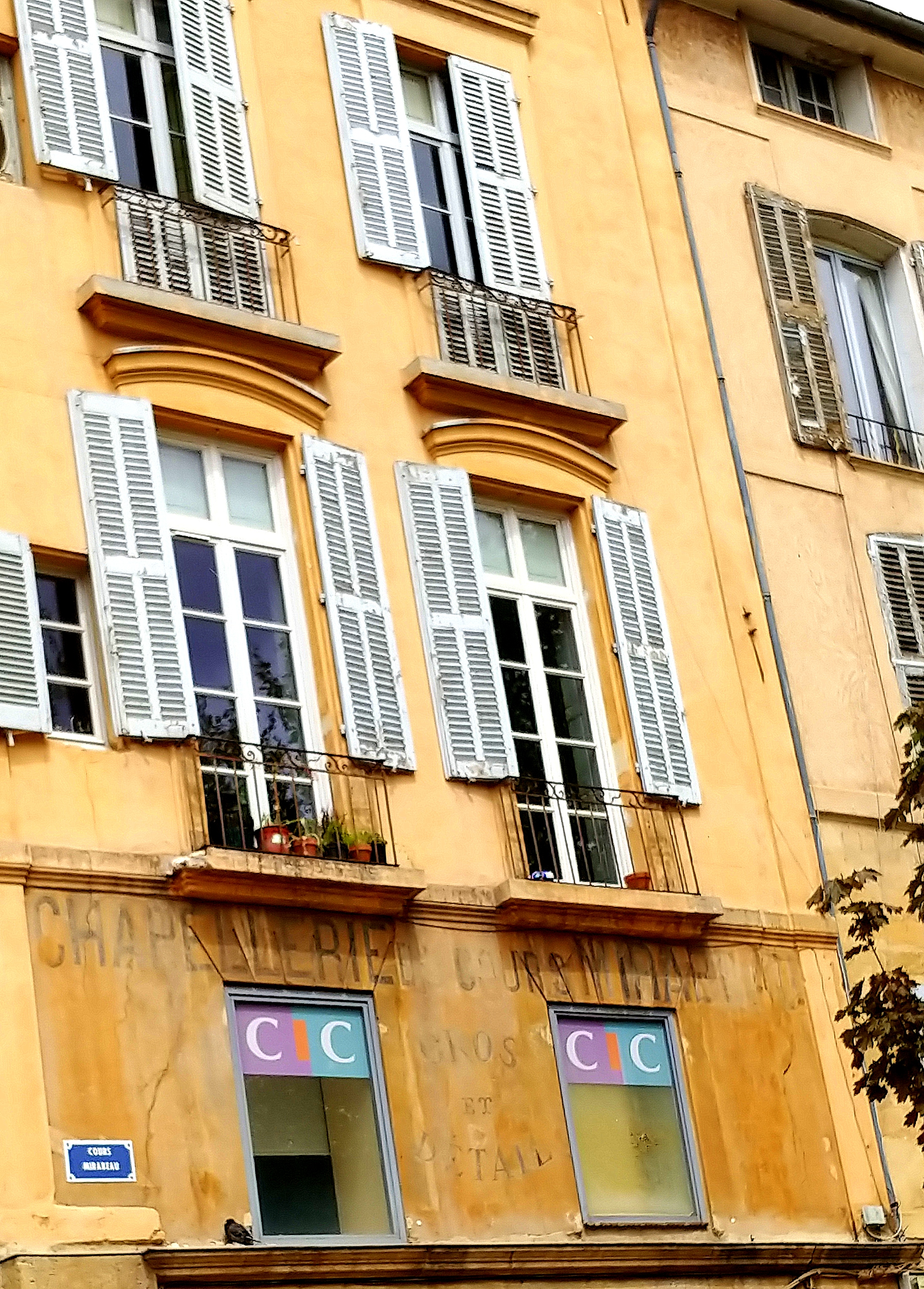 Louis Auguste Cézanne, Paul Cézanne's father, hat shop at 55, cours Mirabeau at Aix-en-Provence.